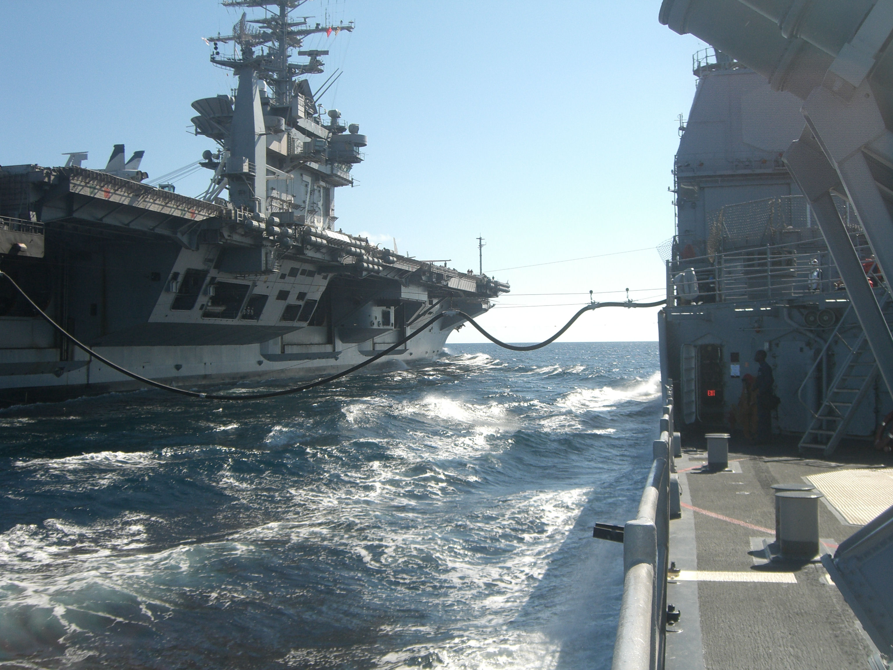 RAS between USS Normandy and USS George Washington